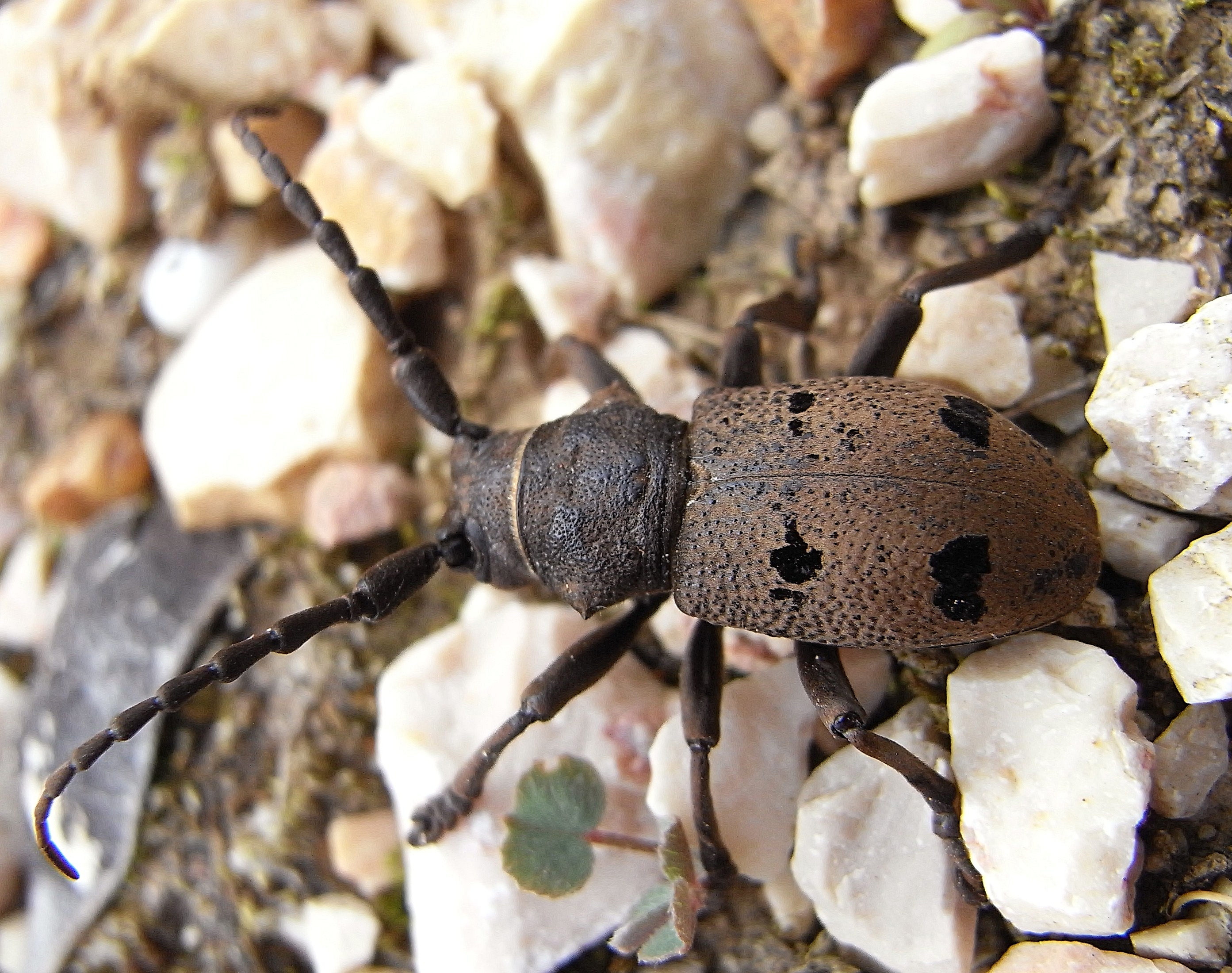 Herophila tristis syn. Dorcatypus tristis from Hungary, Villany-mountains, at 2010-05-05 Ricoh R8